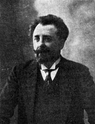 Henri Caïn